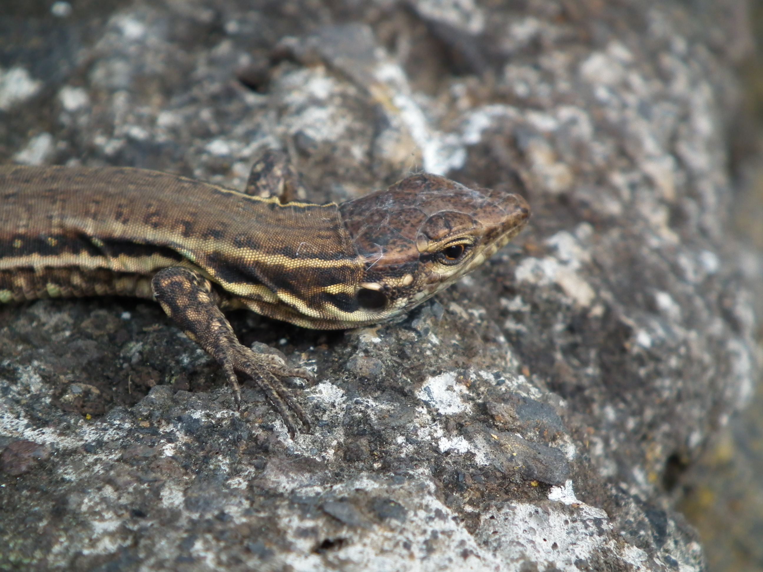 Female La Palma Lizard (Gallotia galloti palmae); El Paso, La Palma, Spain